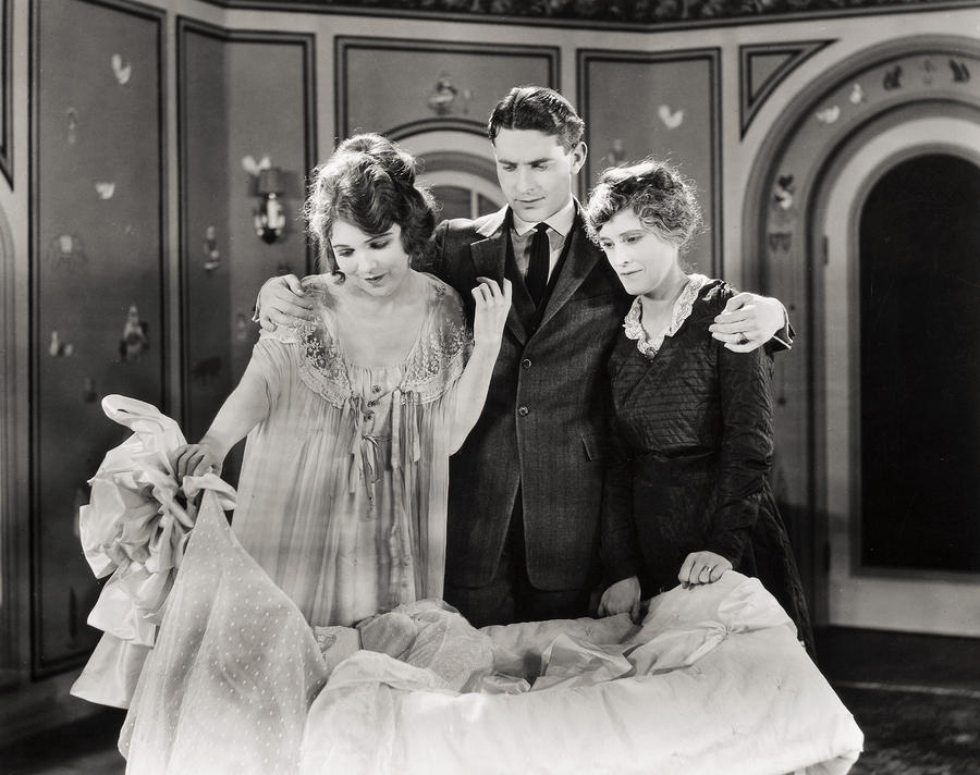 L. to R. : Betty Ross Clarke, Lloyd Hughes & Claire McDowell in Mother o' Mine - publicity still